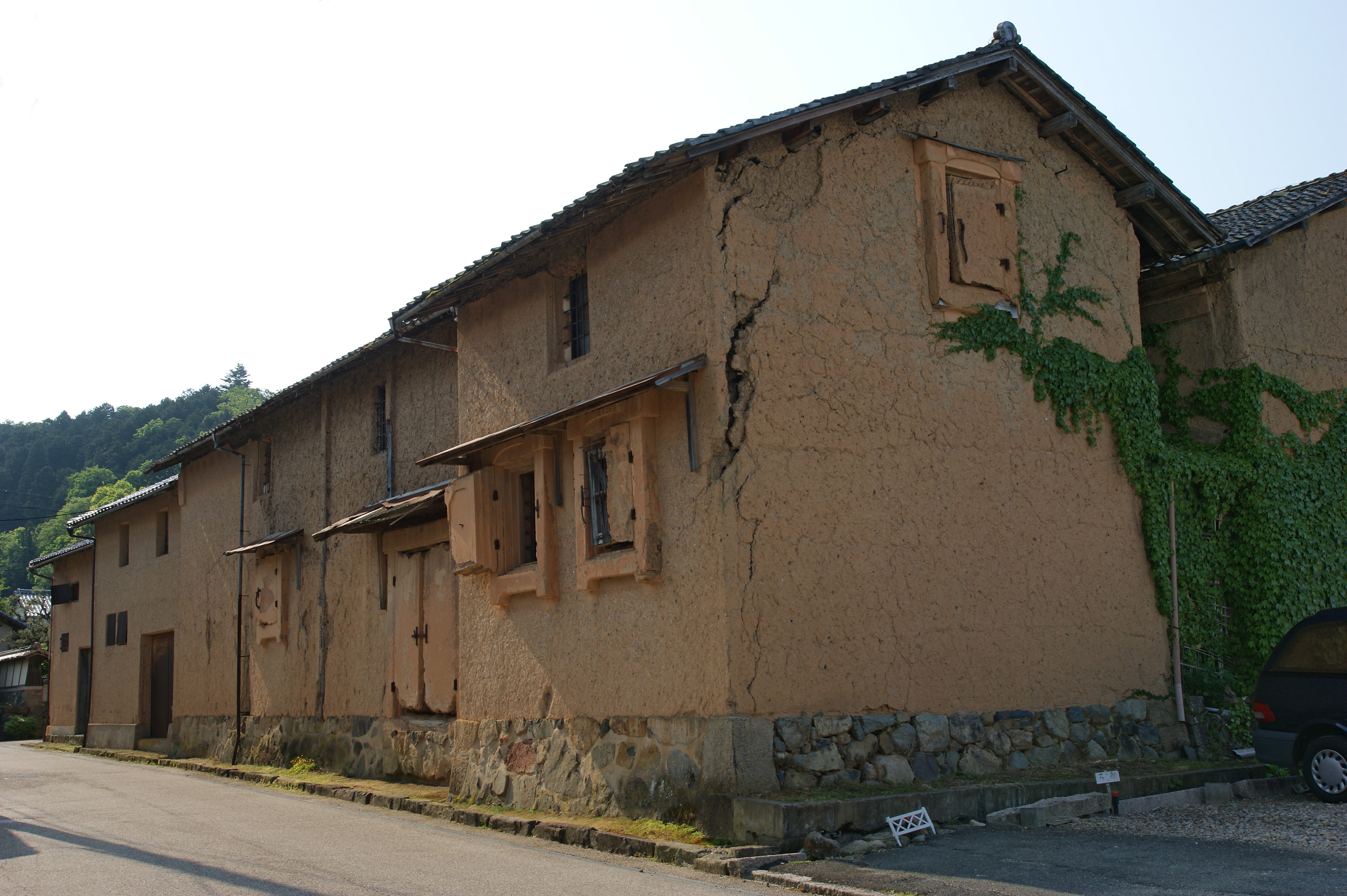 Izushi, Toyooka, Hyogo prefecture, Japan